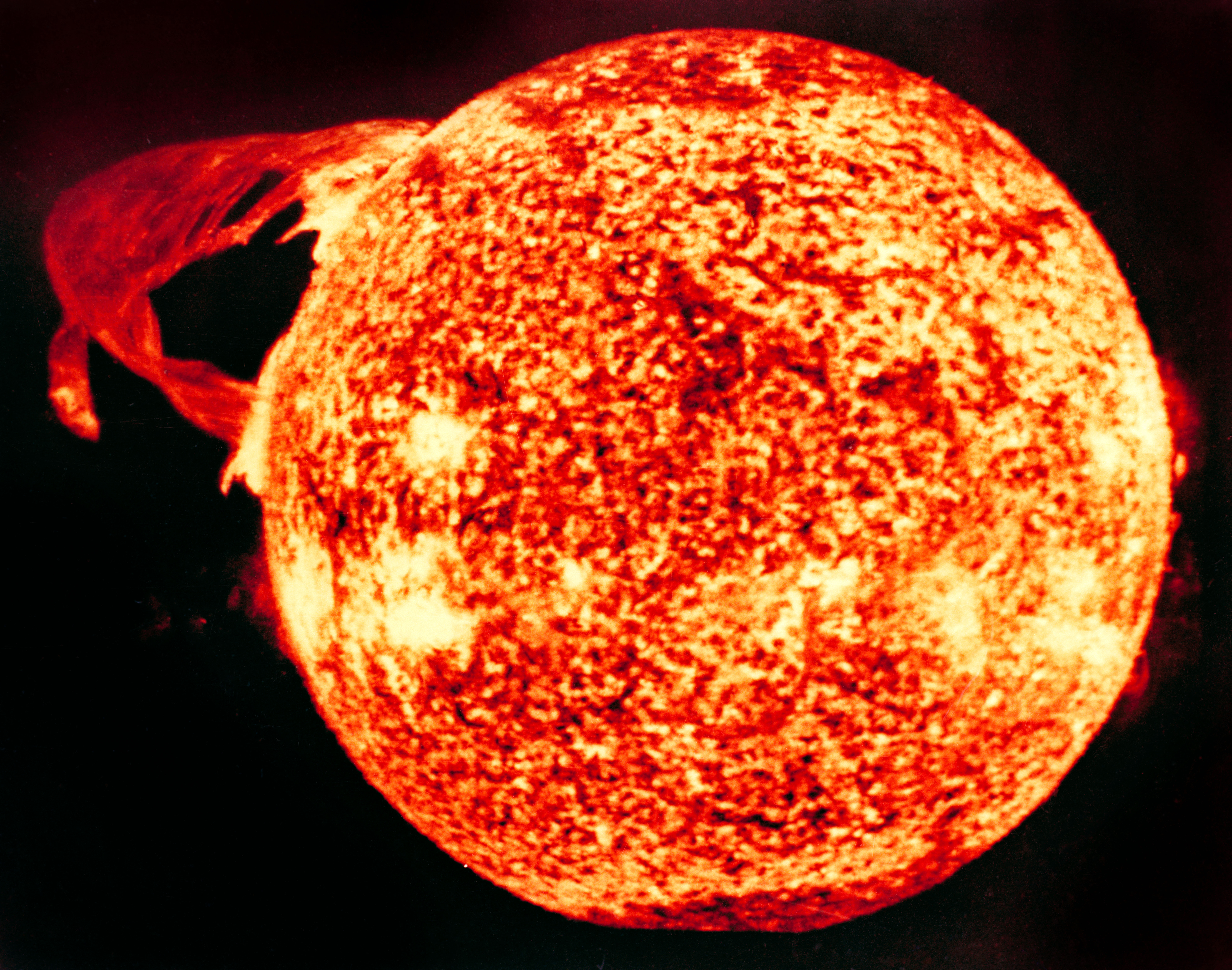 A 1973 photograph of the Sun from Skylab, showing one of the "largest eruptive prominences in recorded history" (as of 1998).